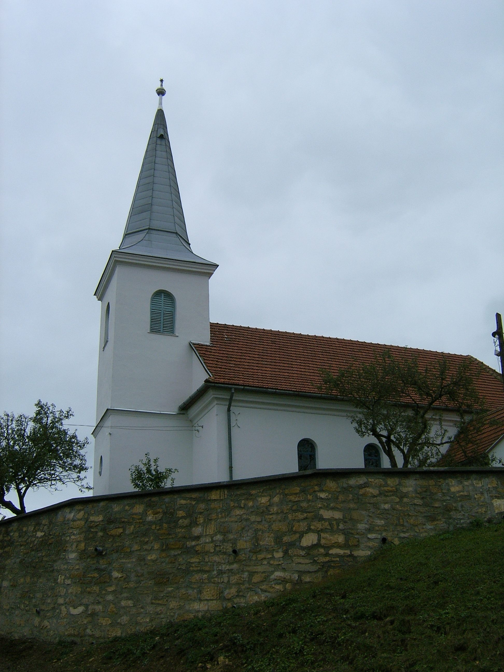 Reformed chirch of Dumbrava (hu. Gyerővásárhely) Transylvania